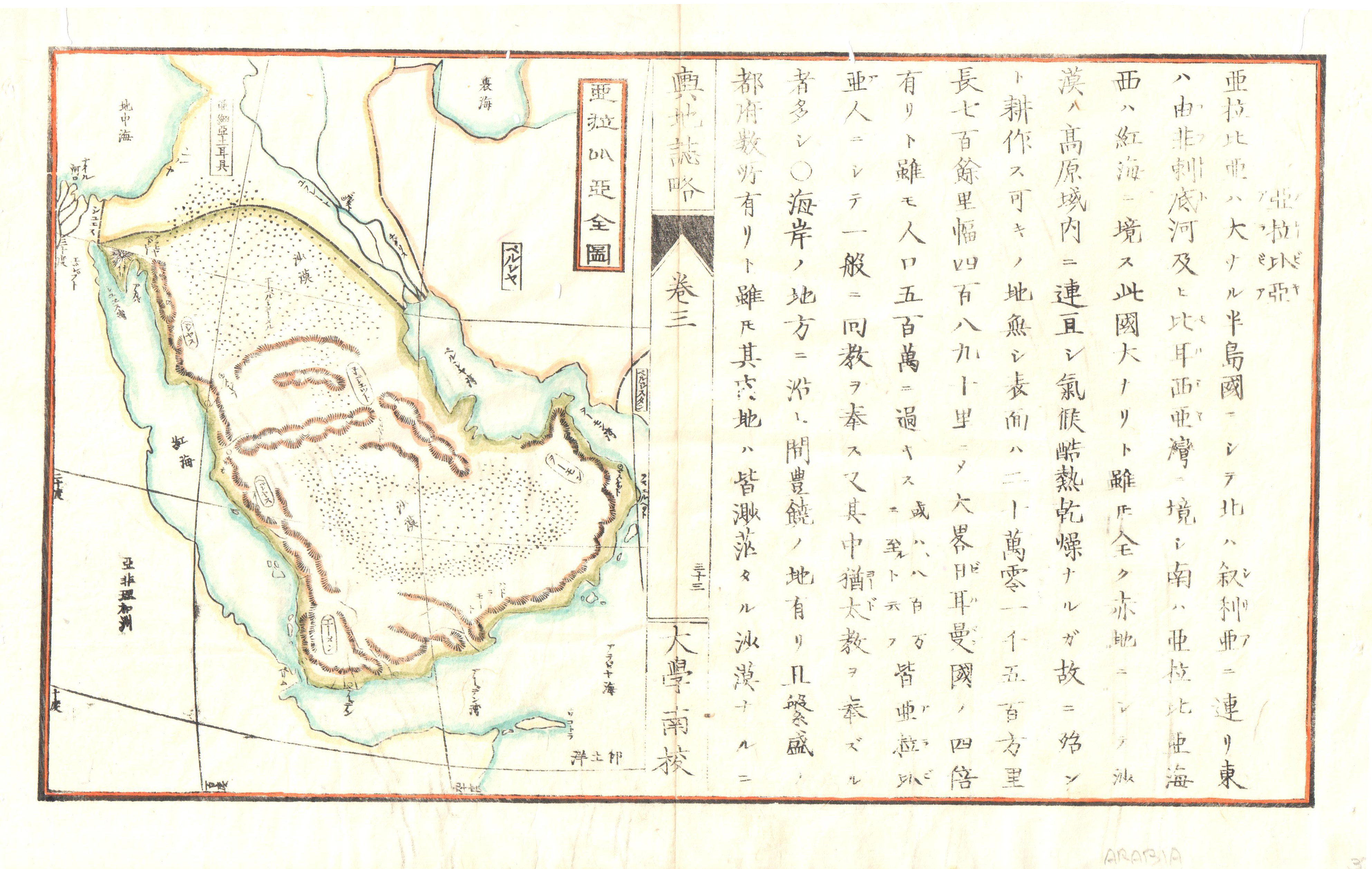 Japanese Map of Saudi Arabia-1874